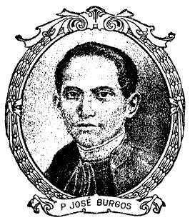 Image from the book "Mga Dakilang Pilipino" by Jose N. Sevilla